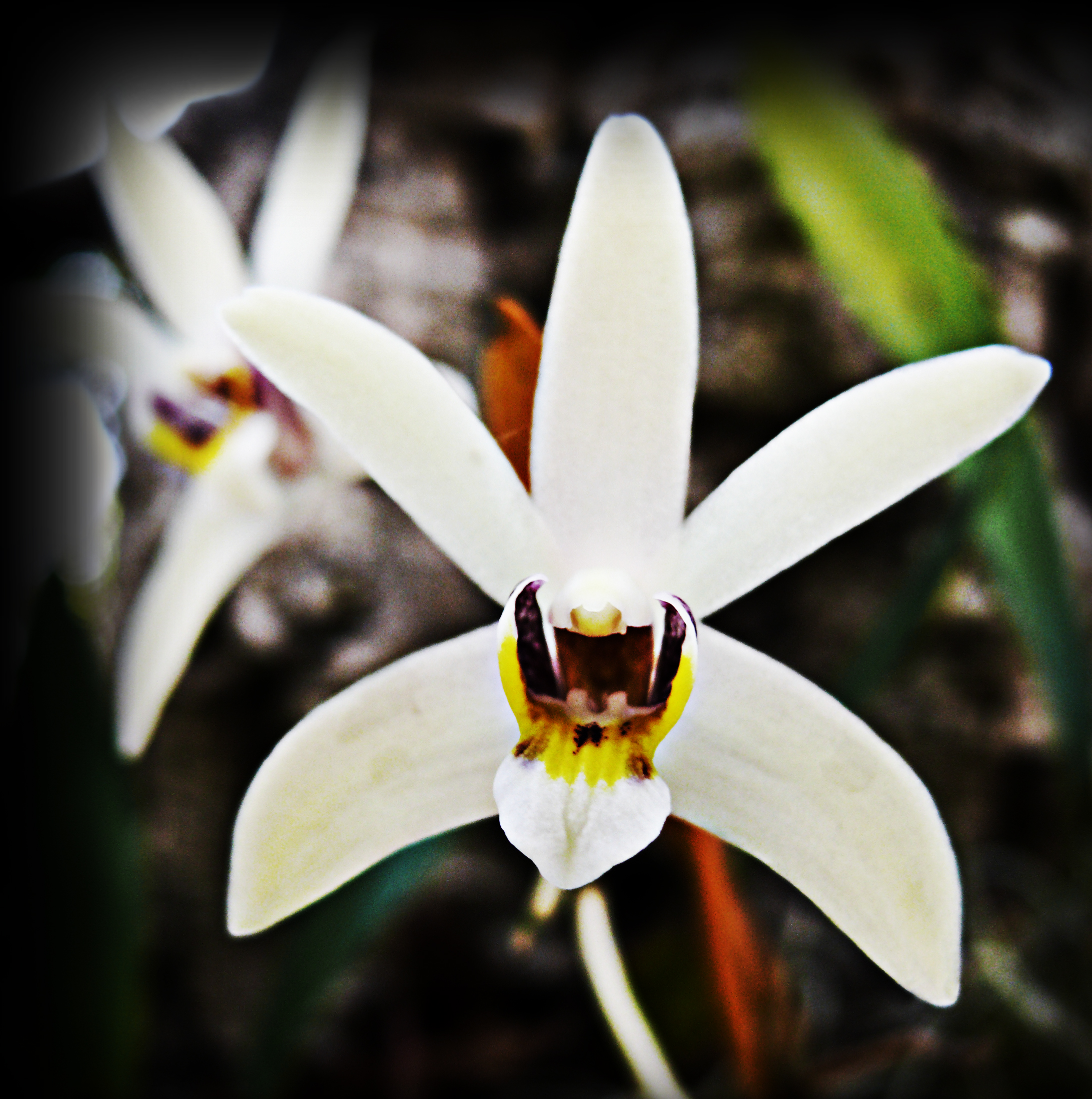 A small sized, hot to warm growing epiphyte from the Malay peninsula, Sumatra and Java in moss forests at elevations of 2200 to 2800 meters with well spaces, ovoid, fleshy pseudobulbs carrying 2 oblong, fleshy, bilobed and obtuse apically leaves that blooms in the spring on an apical, short to 8" [to 20 cm], erect to arcuate, several flowered inflorescence that has small, hyaline, triangular, basal bracts with up to 12, long-lasting, heavy textured flowers that are poorly scented.